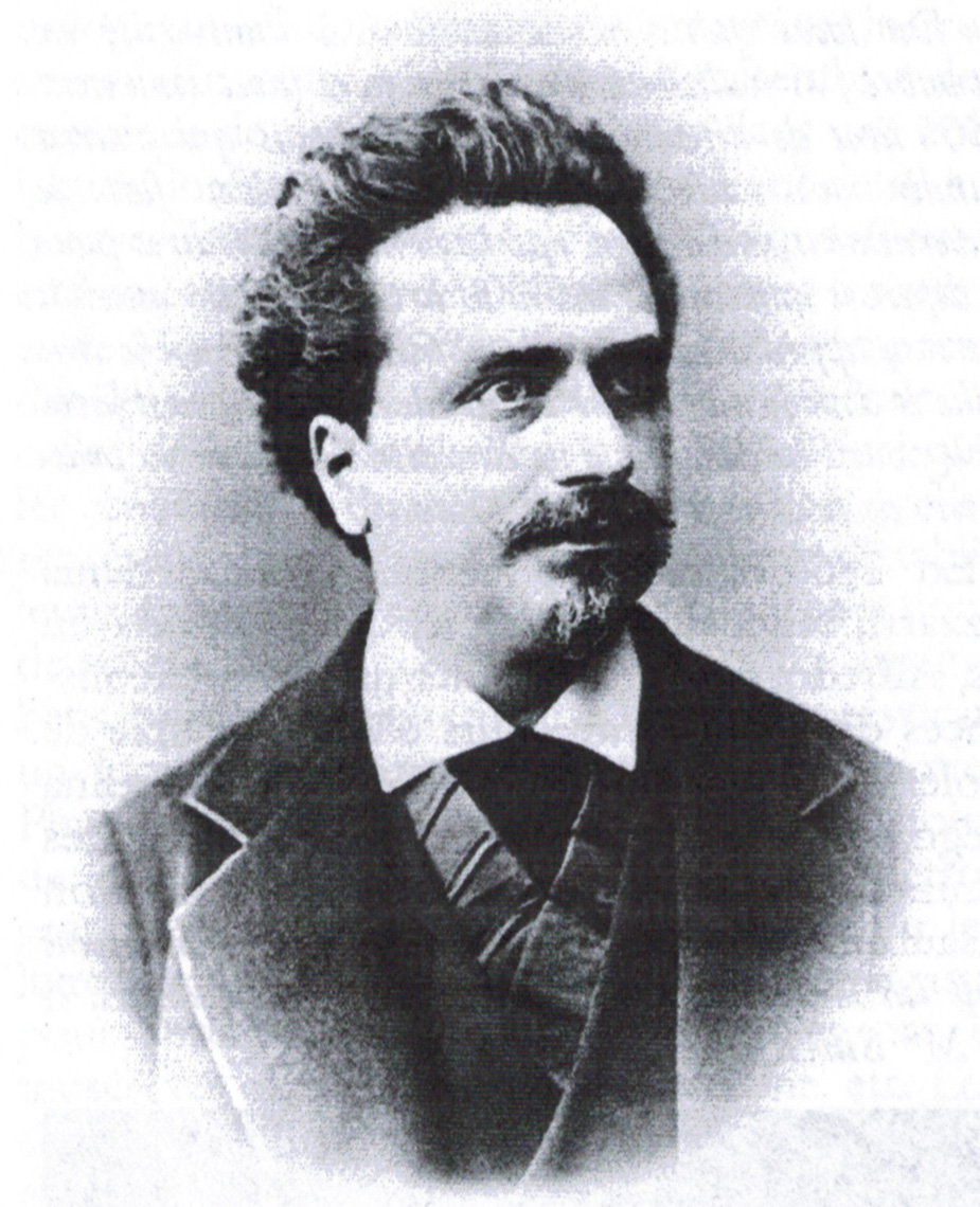 Portrait of Orazio Silvestri, italian volcanologist (1835-1890)